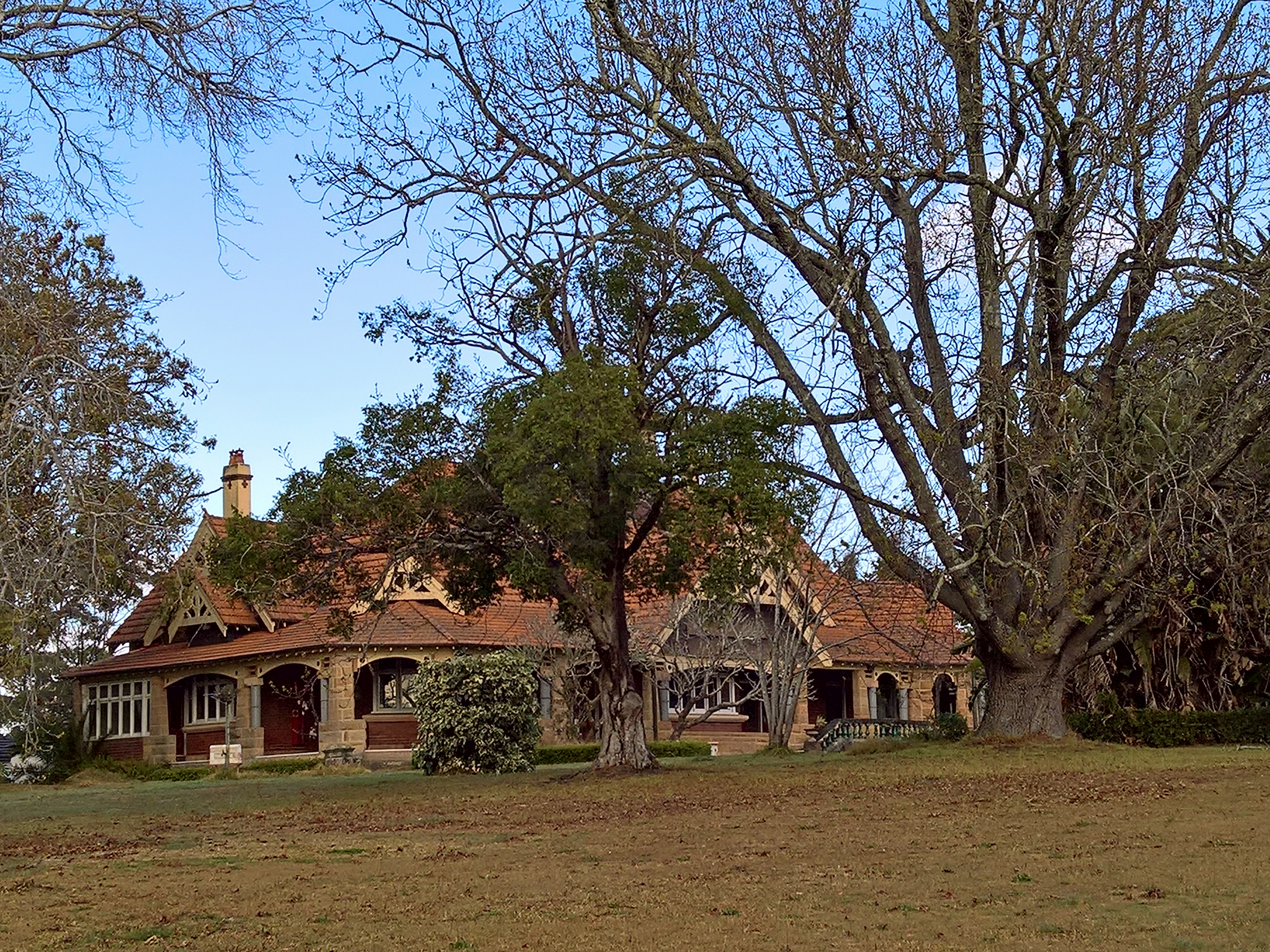 2a Manor Road, Hornsby